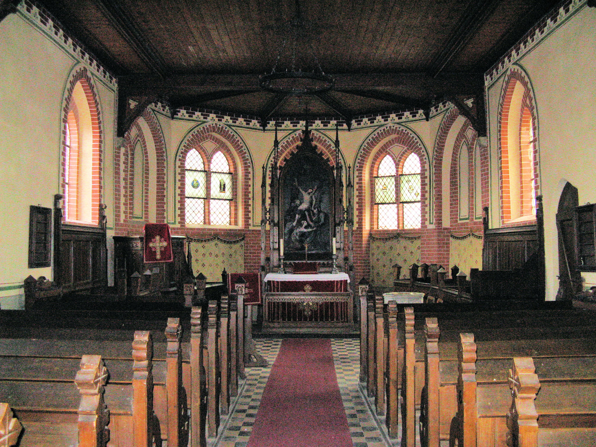 Church in Bäbelin, Mecklenburg-Vorpommern, Germany